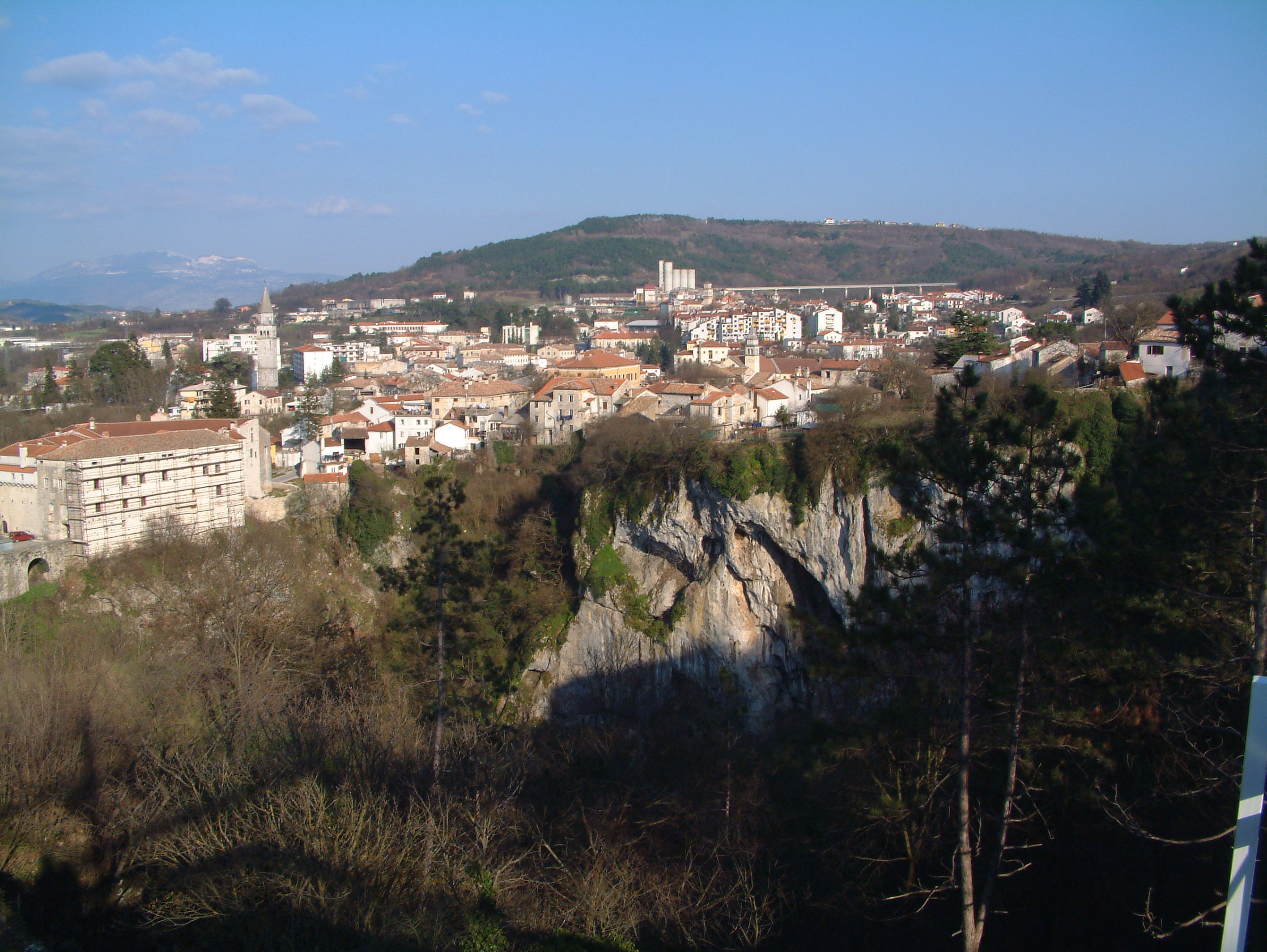 City of Pazin, Croatia, panorama. K. Korlević